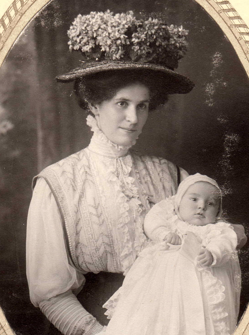 Mary Gwendolen Hodgson wife of Malcolm Elliot Hodgson owner of Scalby Manor, 1905